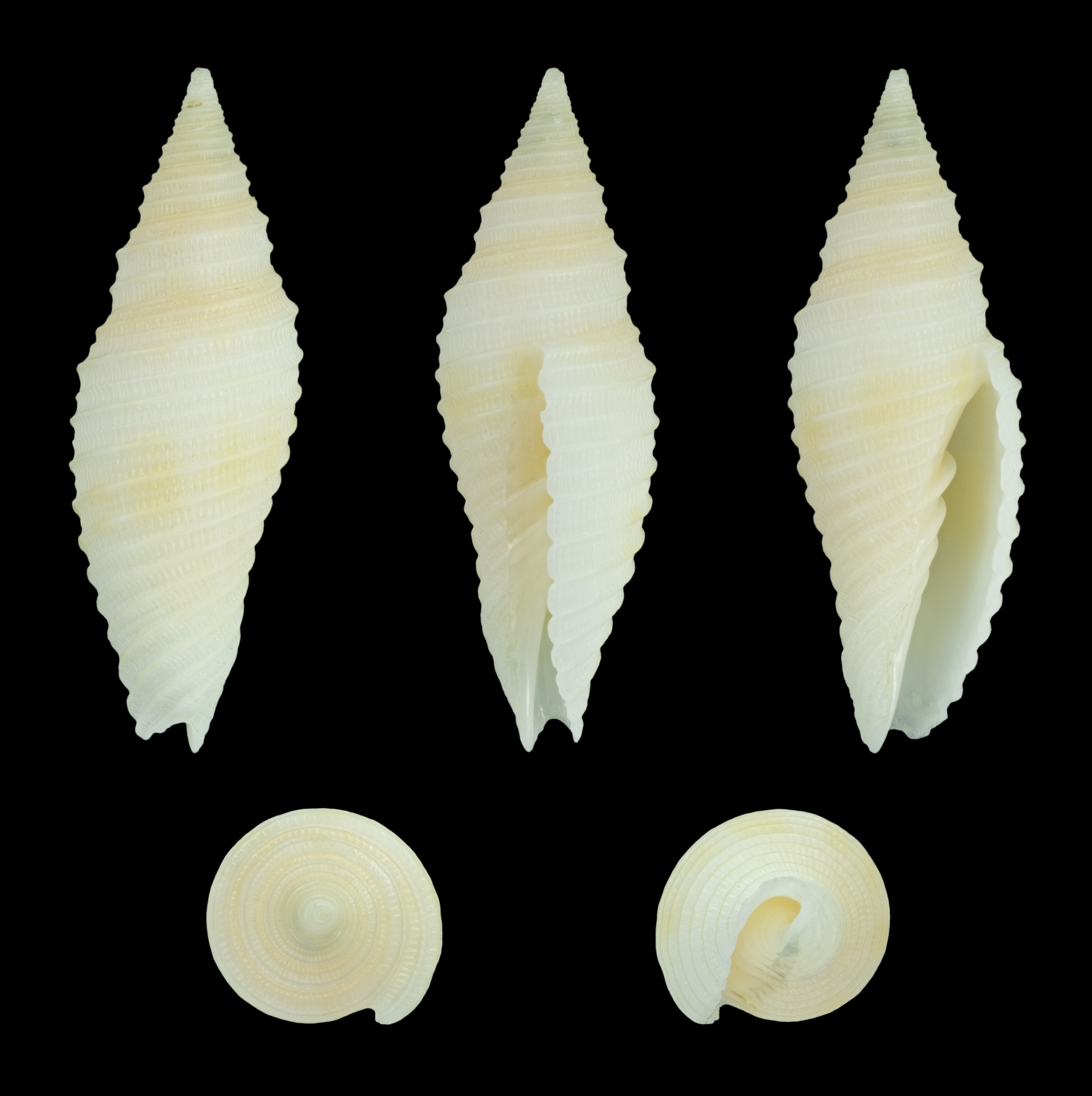 Imbricaria baisei (Poppe, Tagaro & Salisbury, 2009); Length 2.6 cm; Originating from Negros Island, Philippines; Shell of own collection, therefore not geocoded.